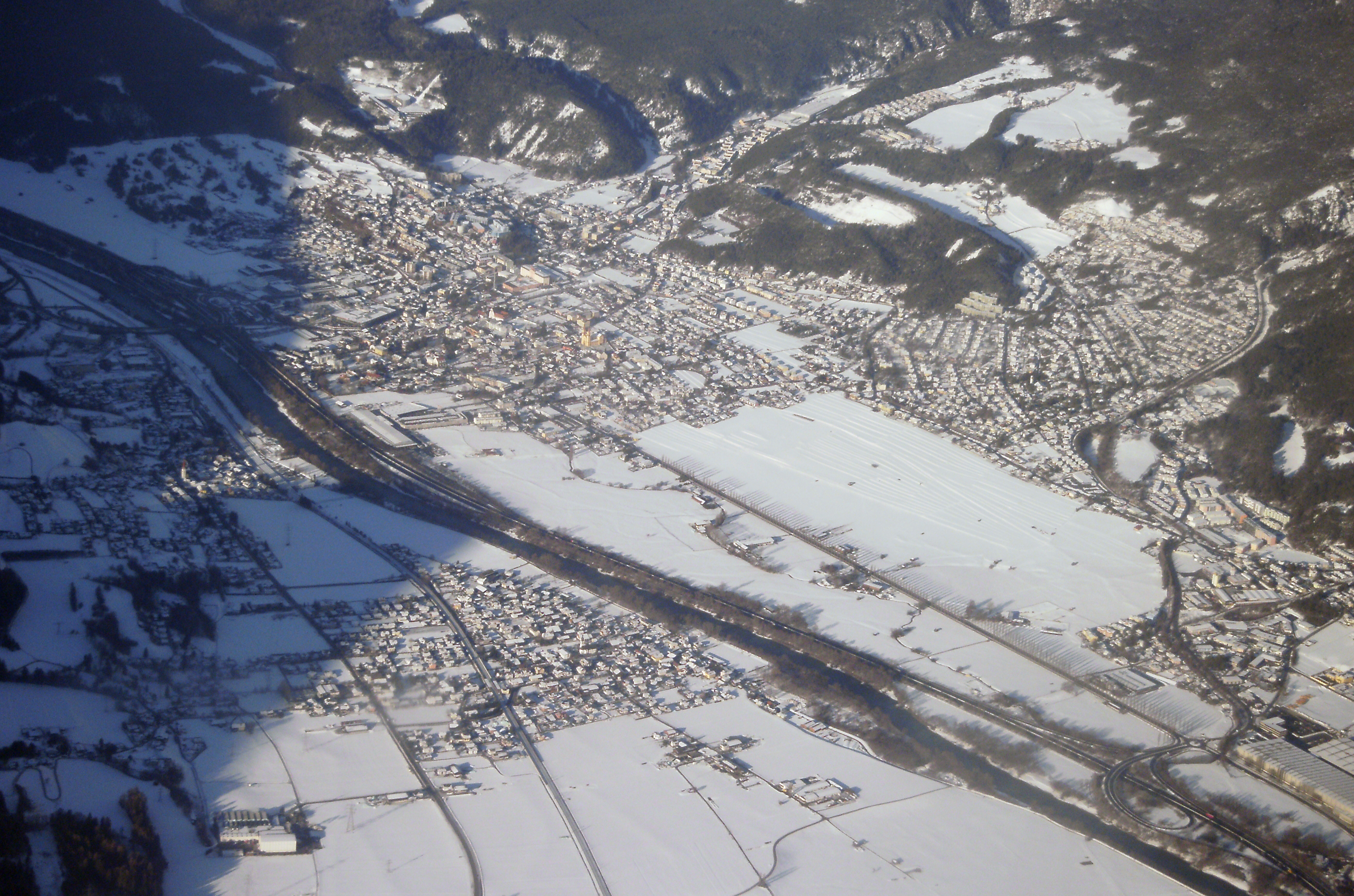 Telfs Oberhofen Pfaffenhofen